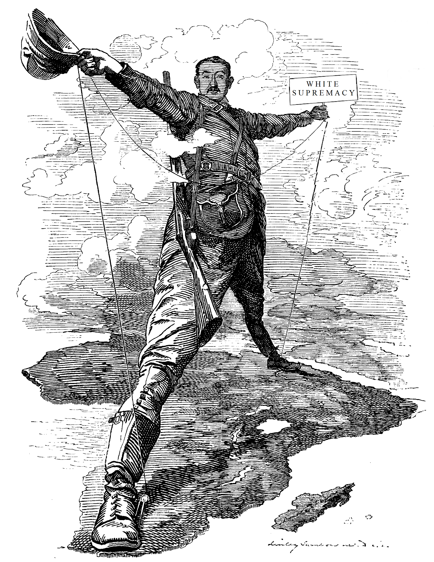 Rework of the caricature of post-railroad telegraph line proposal by Cecil John Rhodes in The Rhodes Colossus captioned with white supremacy